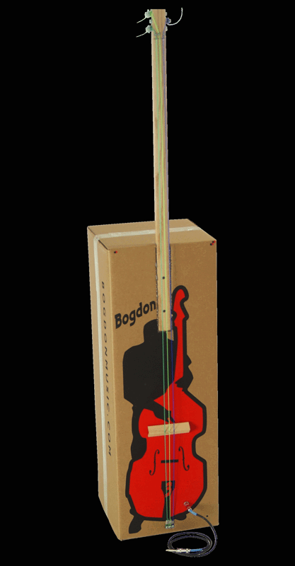 The red ink was introduced as a limited edition from 2013 until 2015 and has been discontinued.